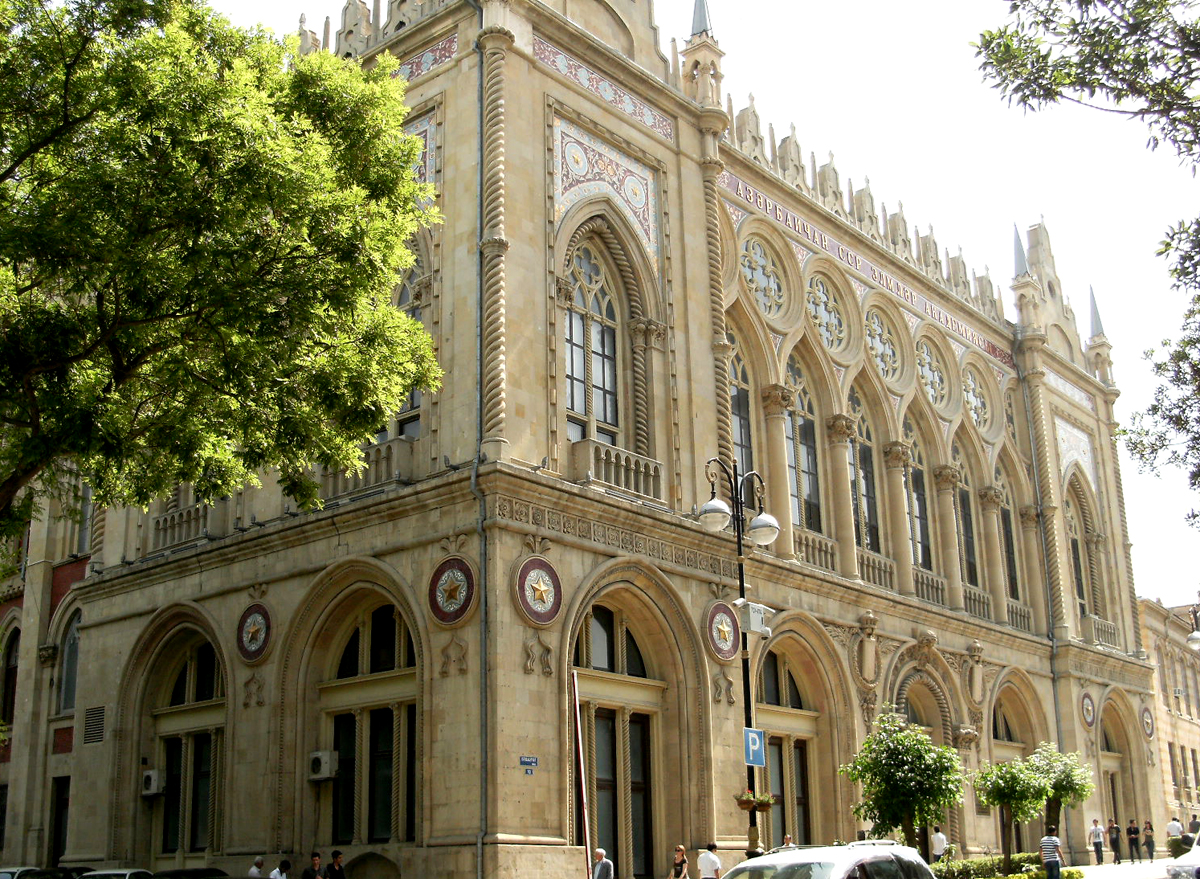 A building in baku